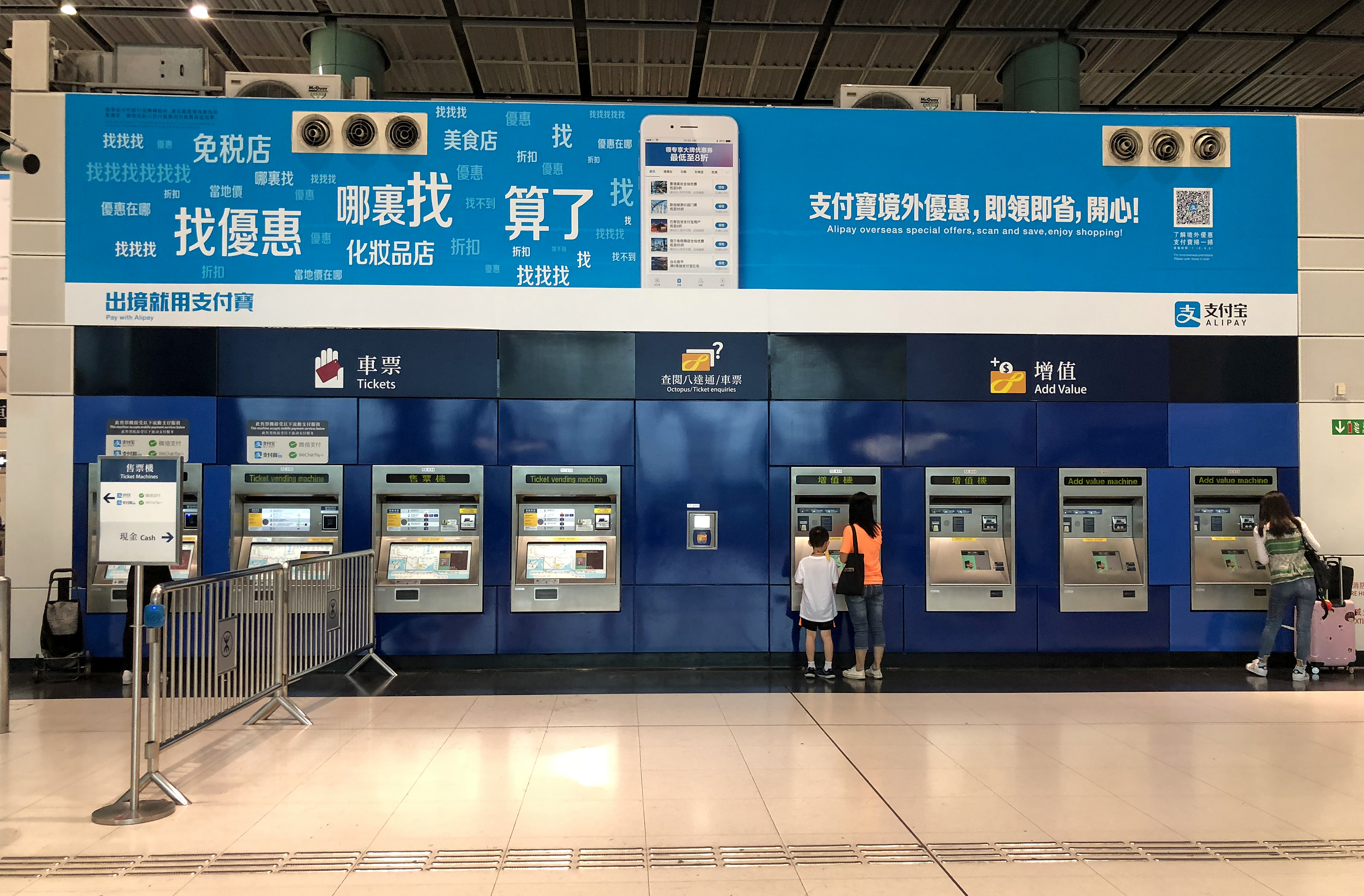 Some even supports Alipay and WeChat Pay... but it's not the case at all MTR stations.